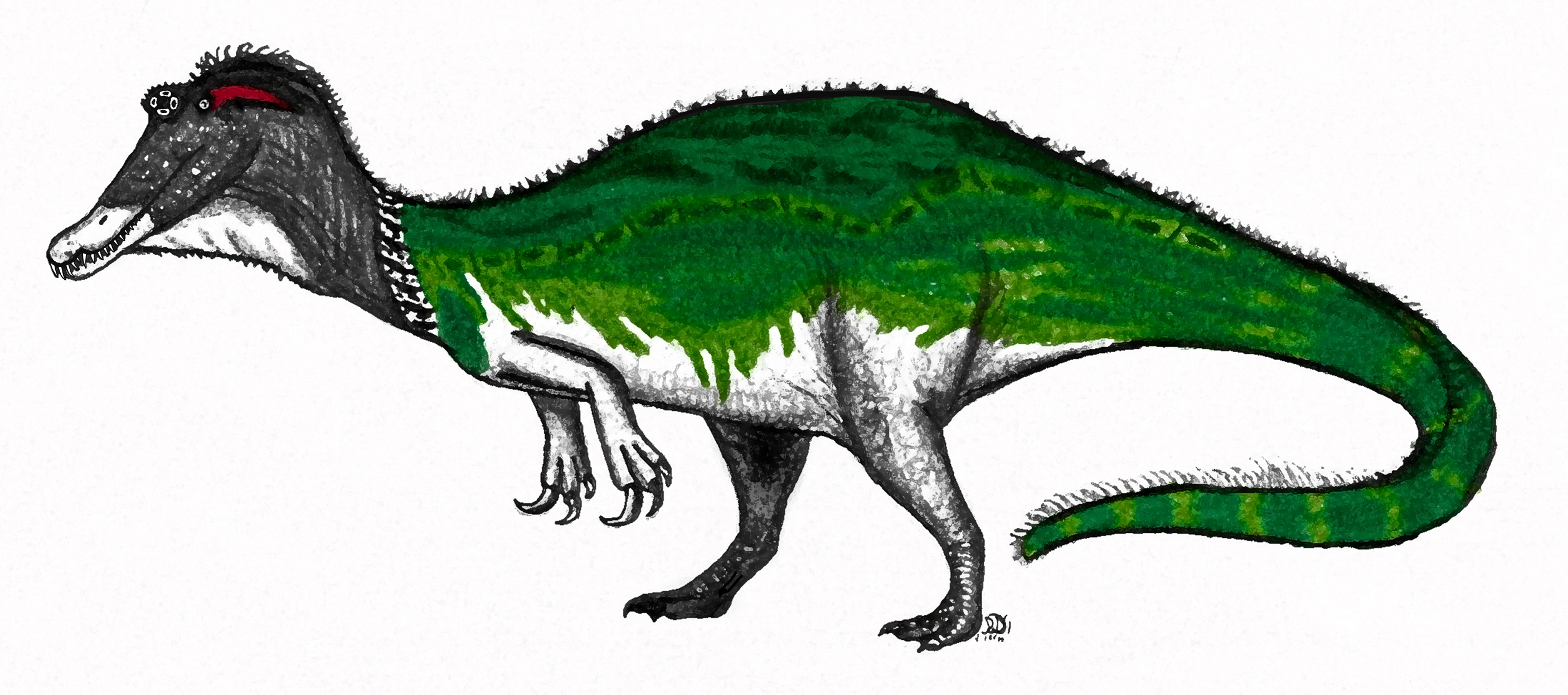 Restoration of the Chinese theropod "Sinopliosaurus fusuiensis" as a generalized spinosaurid. Silhouette of the holotype tooth is visible.